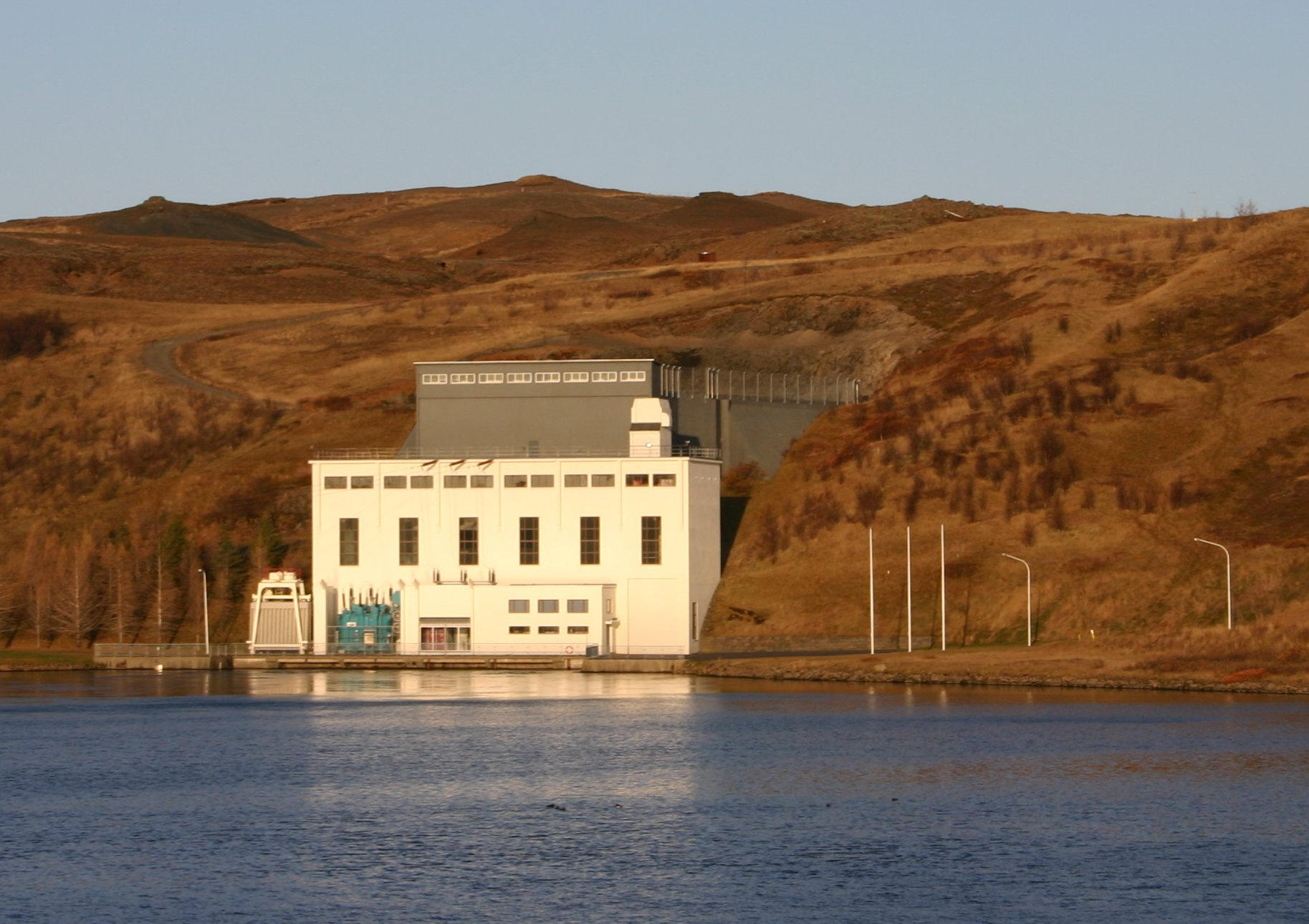 Hydroelectric power plant Streingrimsstod in Iceland near Thingvellir and Ulfljotsvatn.